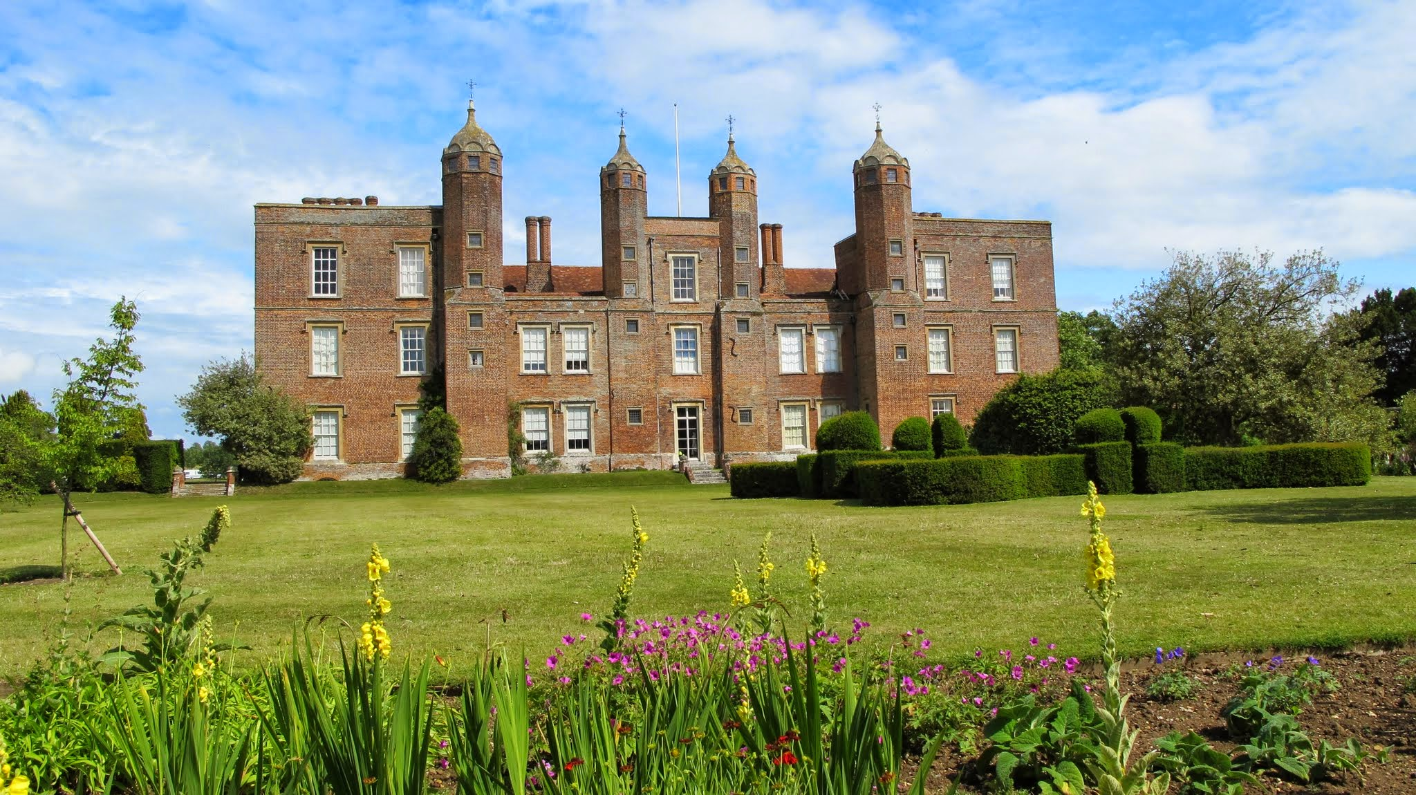 Long Melford, Sudbury CO10, UK